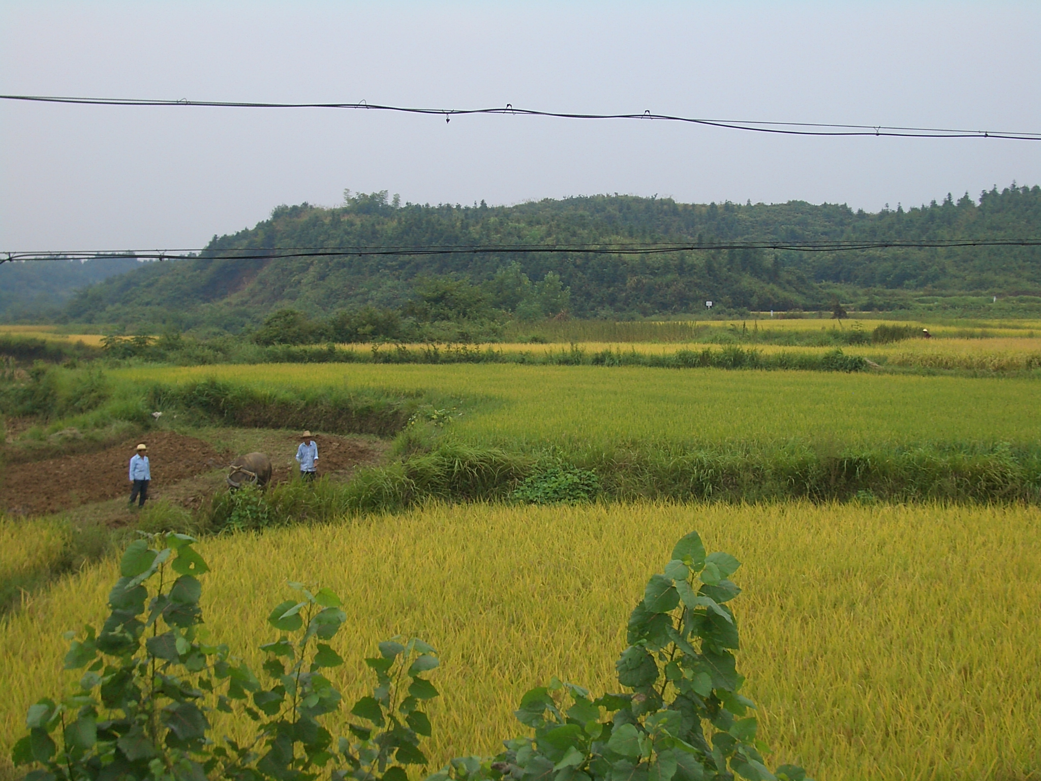 Field work in the fields along Hubei Provincial Highway S208, just south of the Xianning central city.